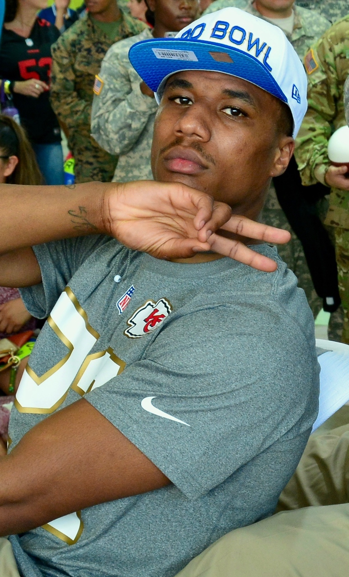 Kansas City Chief Cornerback Marcus Peters stop for a quick photo opportunity with Sgt. 1st Class Kevin Edmondson, Regional Health Command-Pacific, while watching the 2016 Pro Bowl Draft show at Wheeler Army Airfield, Hawaii, Jan. 27.